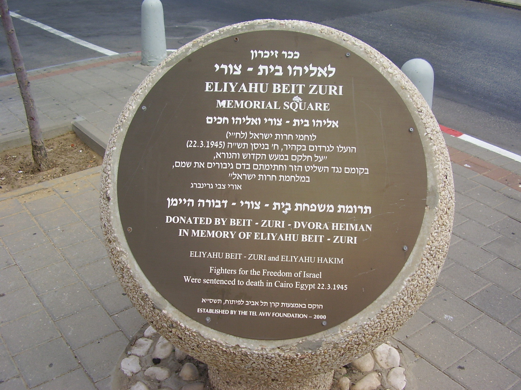 memorial square to elyahu beit-zuri & elyahu hakim who were executed by the british in cairo, 1945 after they killed lord moyne